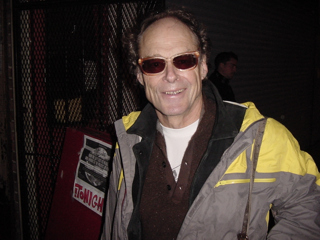 Author and journalist Alexander Cockburn photographed by myself, Robert B. Livingston, December 6, 2007 in San Francisco.